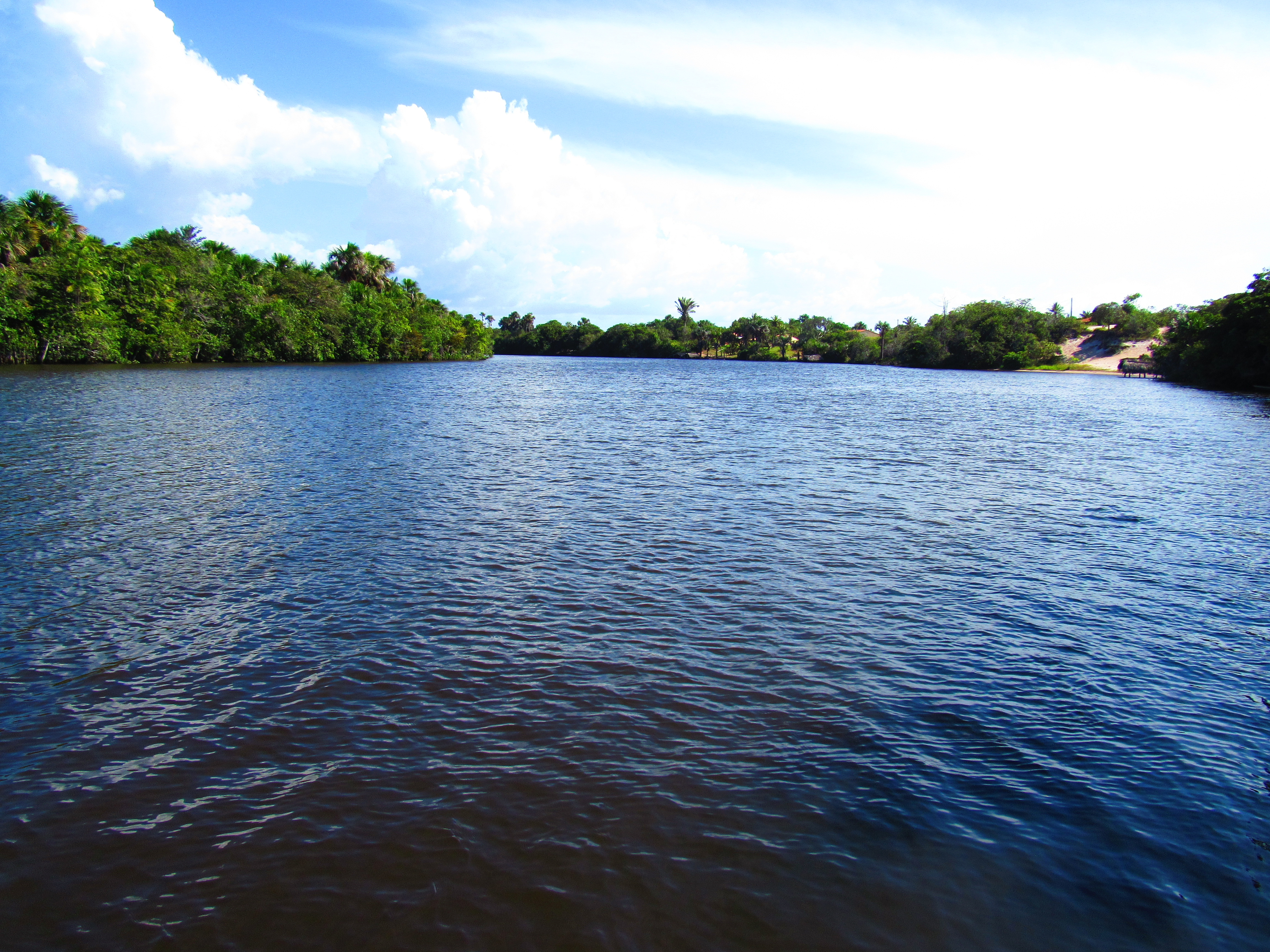 In order to get to Lencois Maranhenses park, you need to take a ferry and cross Preguiças River.